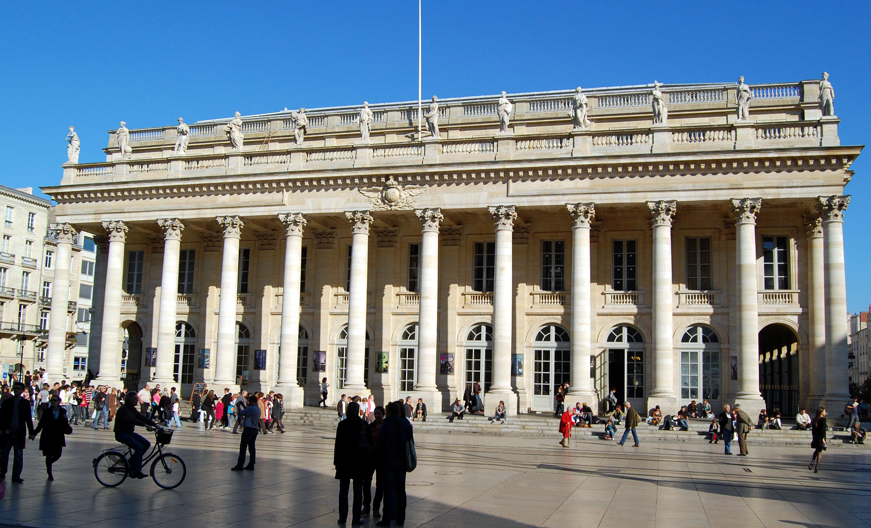 "Grand Théatre" of Bordeaux, France